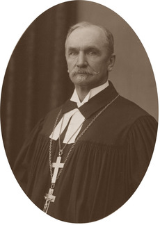 Alexander Hans Bernewitz (1863-1935)